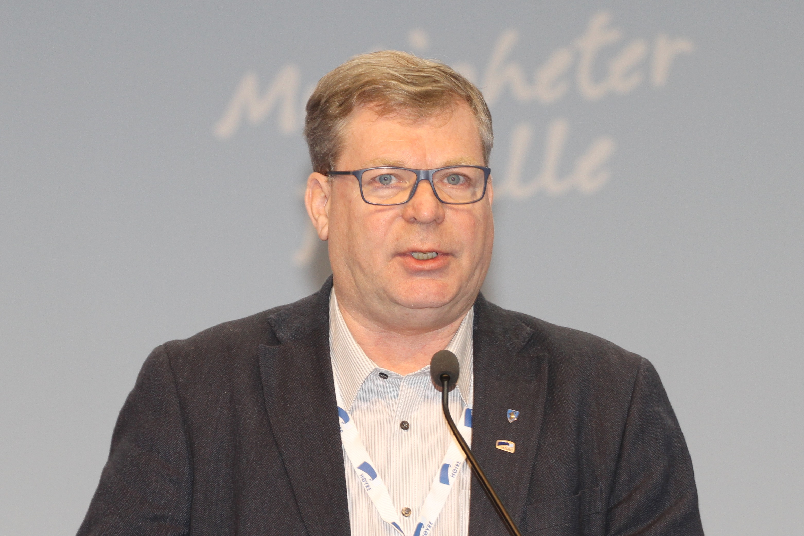 Noralv Distad